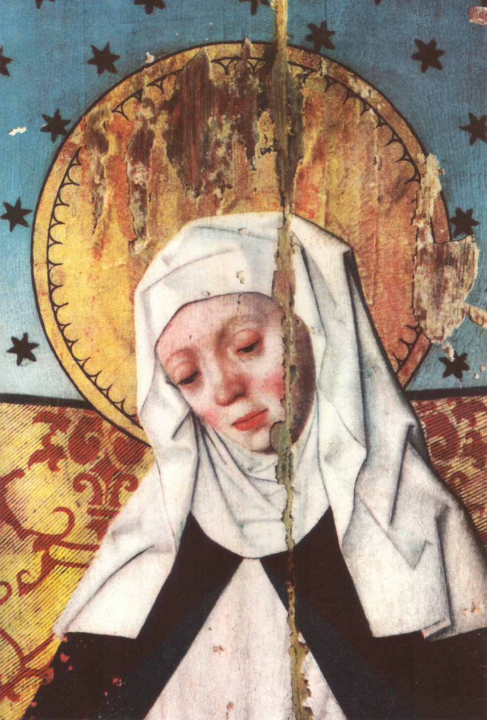 Birgitta of Sweden on an altarpiece in Salem church, Södermanland, Sweden